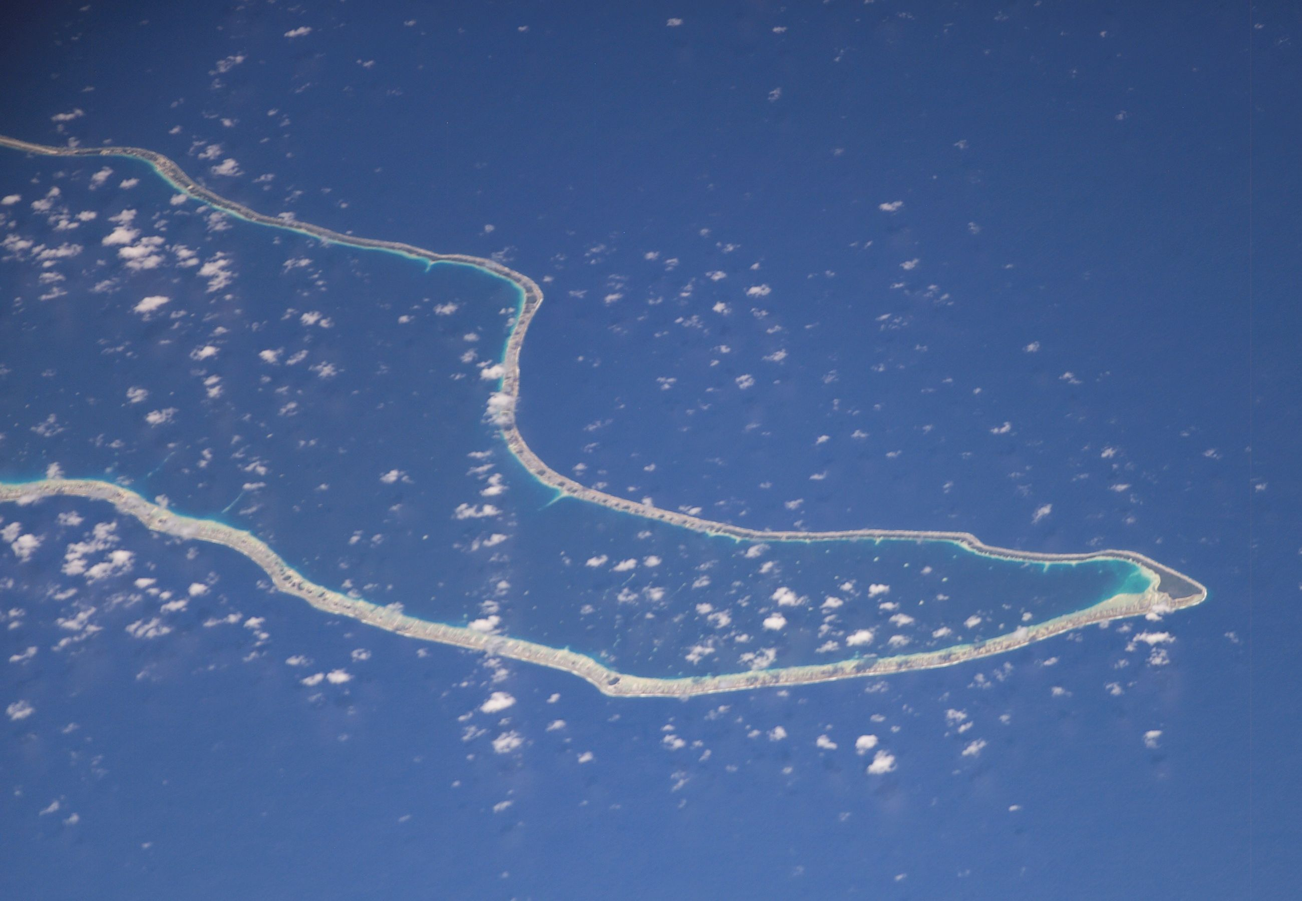 NASA astronaut image of Hao Atoll (Tuamotu Archipelago, French Polynesia) in the Pacific Ocean